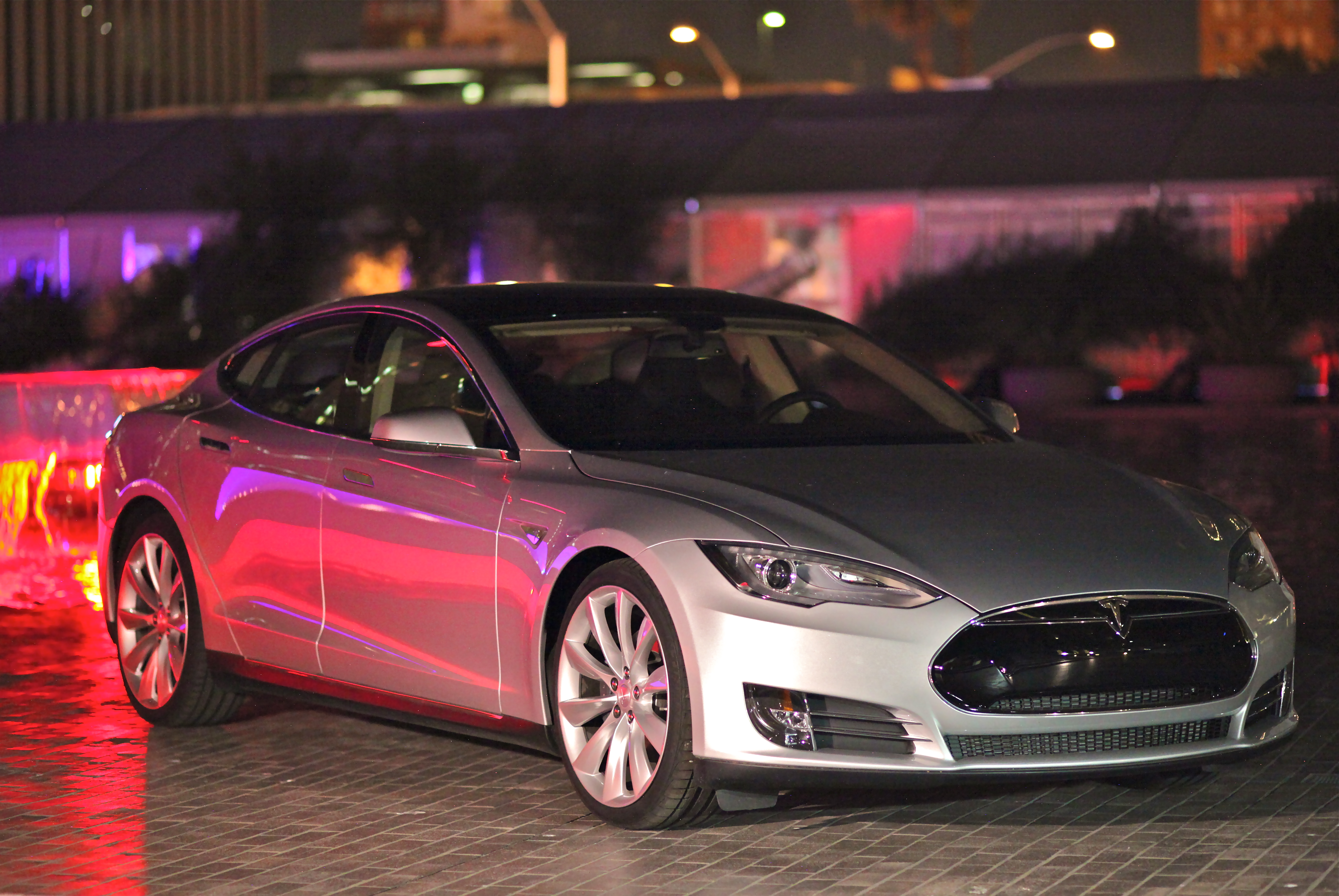 A Tesla Motors Model S sedan in the courtyard of a TED Conference.